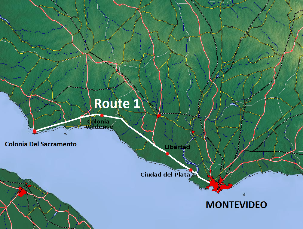 Map of Route 1, Uruguay